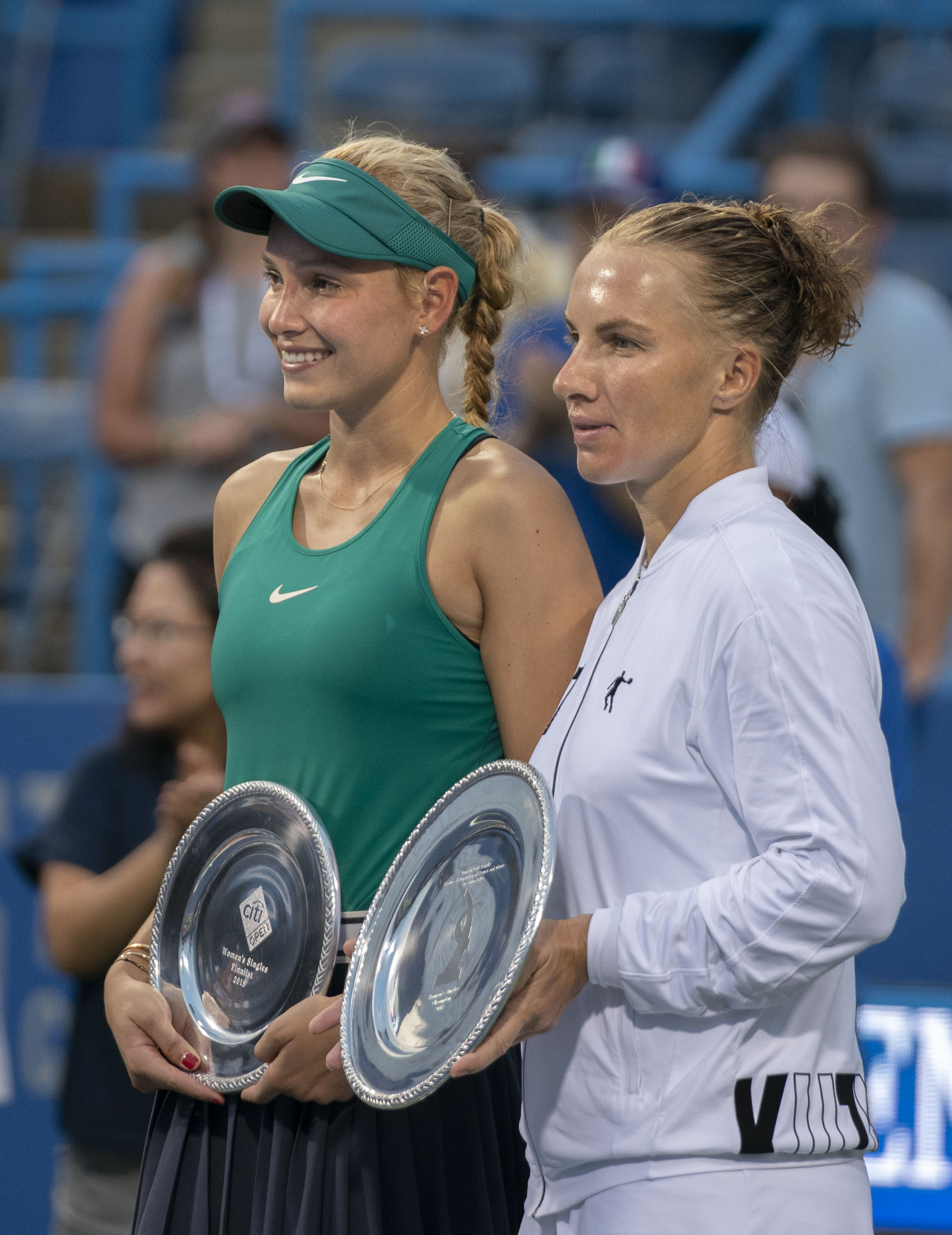 2018 Citi Open Tennis Finals